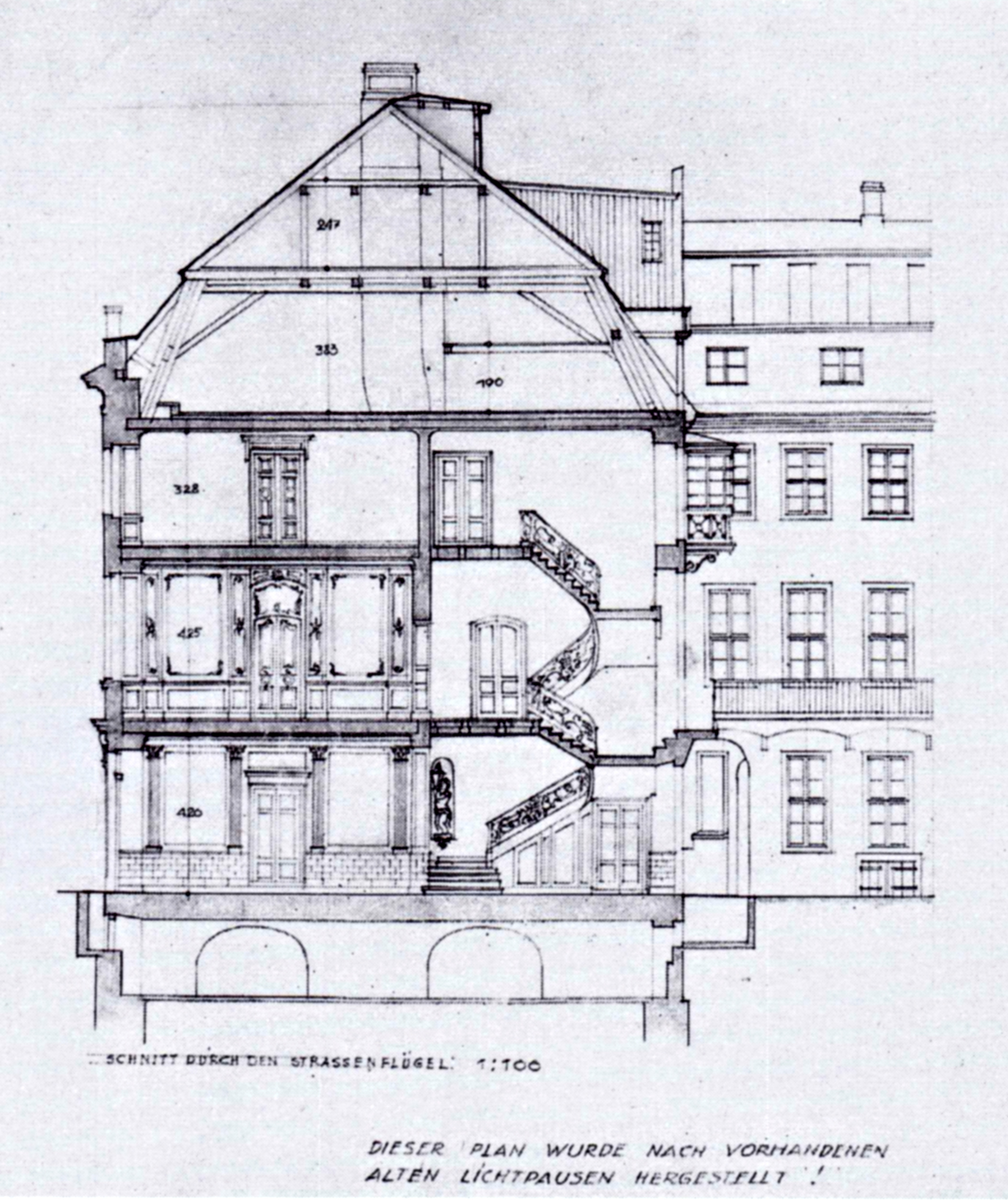 Cross-section through the front-building of the original Ermeler house at Breite Straße 11 before demolition and recontruction at Märkisches Ufer Nr. 10